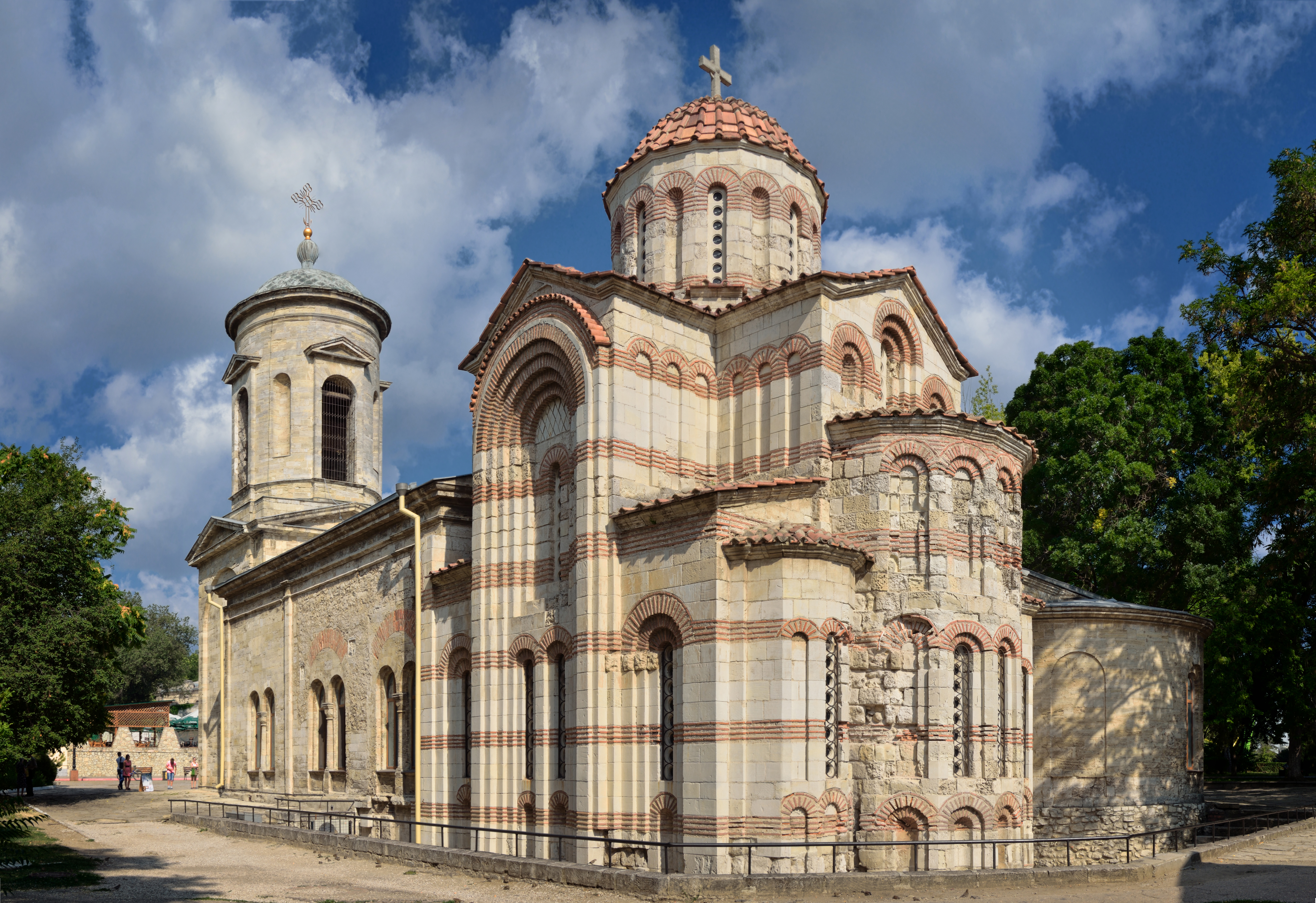 Kerch. Church of St John the Baptist, Ukraine. 8th century.